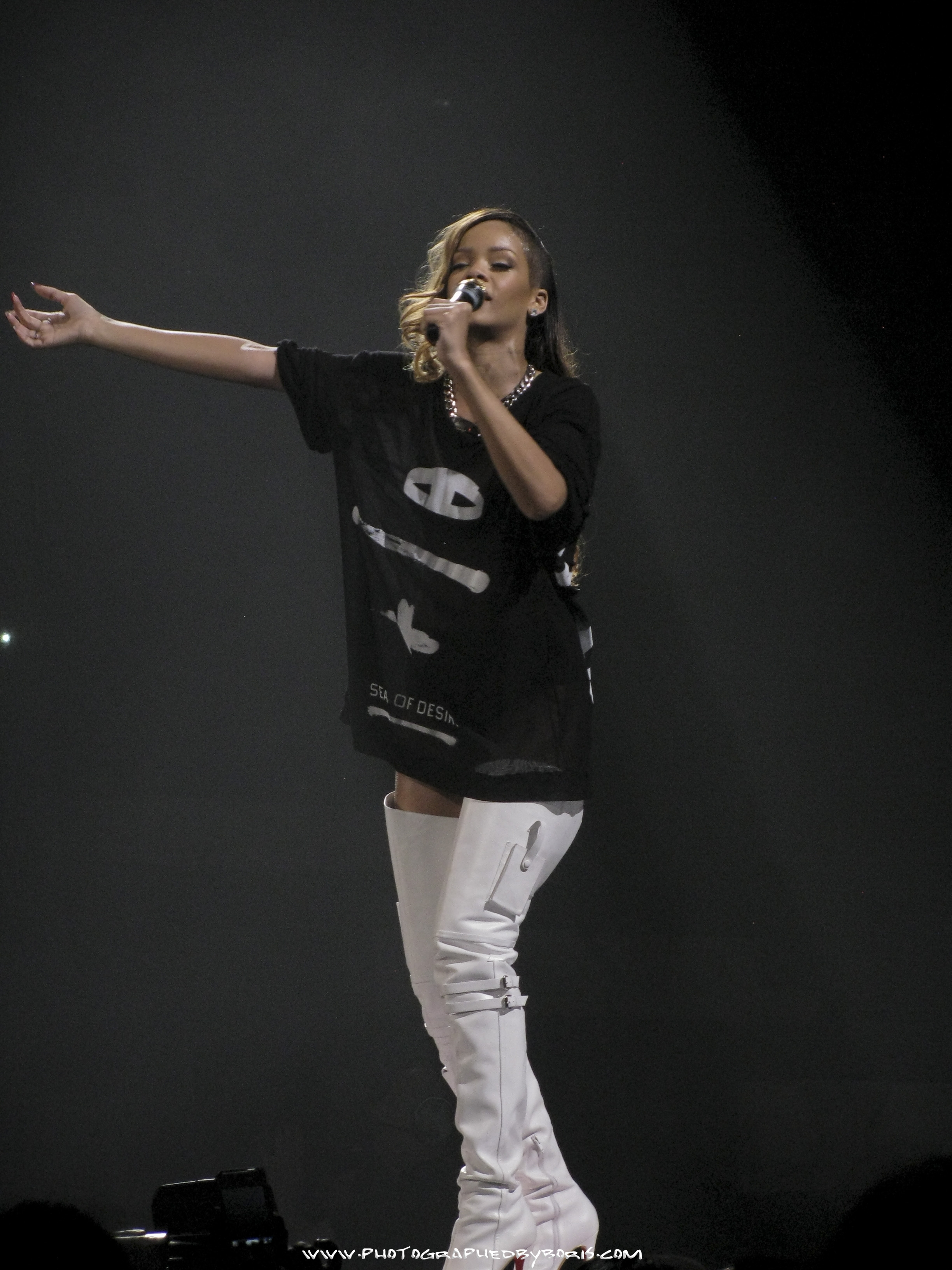 Rihanna at the Air Canada Centre